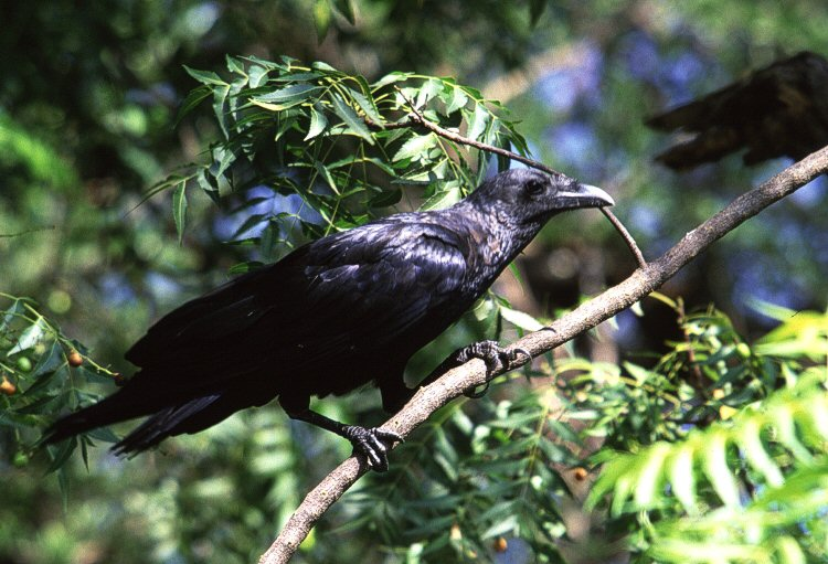 fan tailed raven on a branch